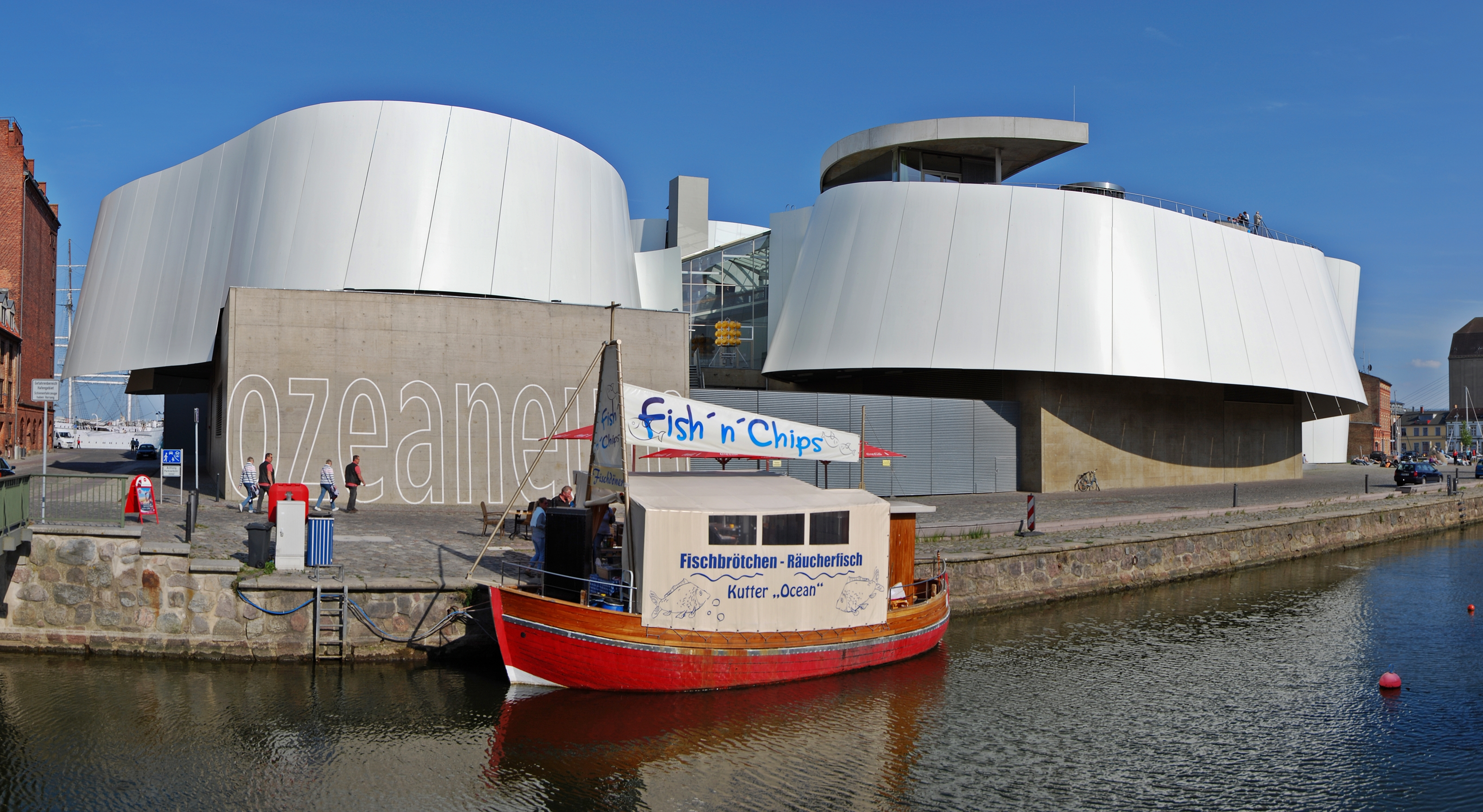 The Ozeaneum in Stralsund, Mecklenburg-Vorpommern.